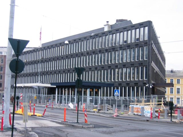 Previous American embassy in Oslo, Norway.